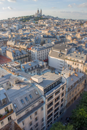 Paris College of Art new campus: the PCA DEsign Center located in the 10th arrondissement of Paris